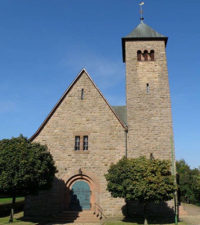 Ev. Kirche in Würzberg